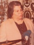 Late Tunisian president Habib Bourguiba with former former prime minister Mohamed Mzali (from right) and former minister Fathia Mzali